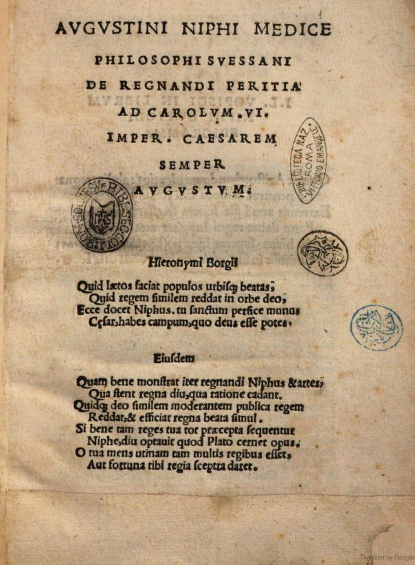 Augustinus Niphus, De regnandi peritia (unacknowledged version of Machiavelli's Il principe) title page